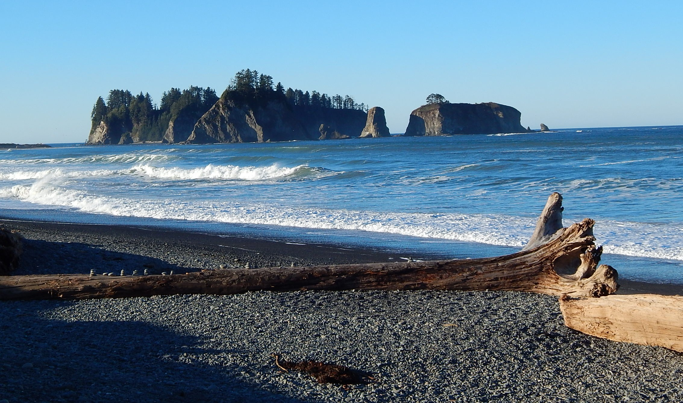 James Islands seen from Rialto Beach. Washington coast